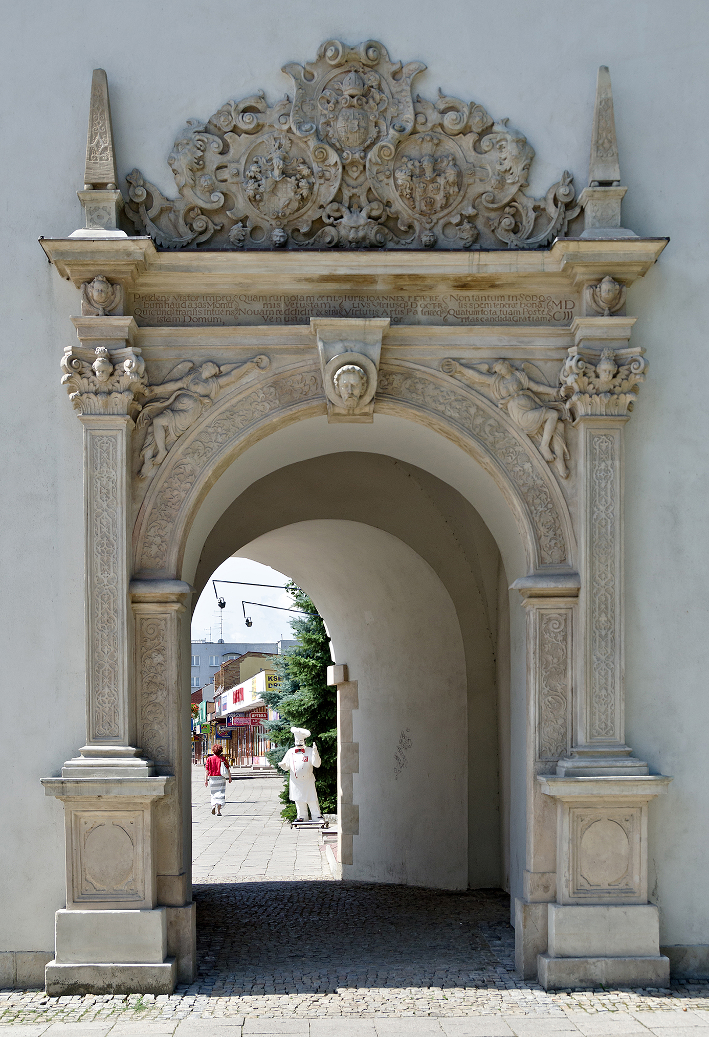 Wrocławska Gate in Nysa